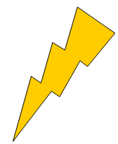 created out of Image:thunderbolts.PNG